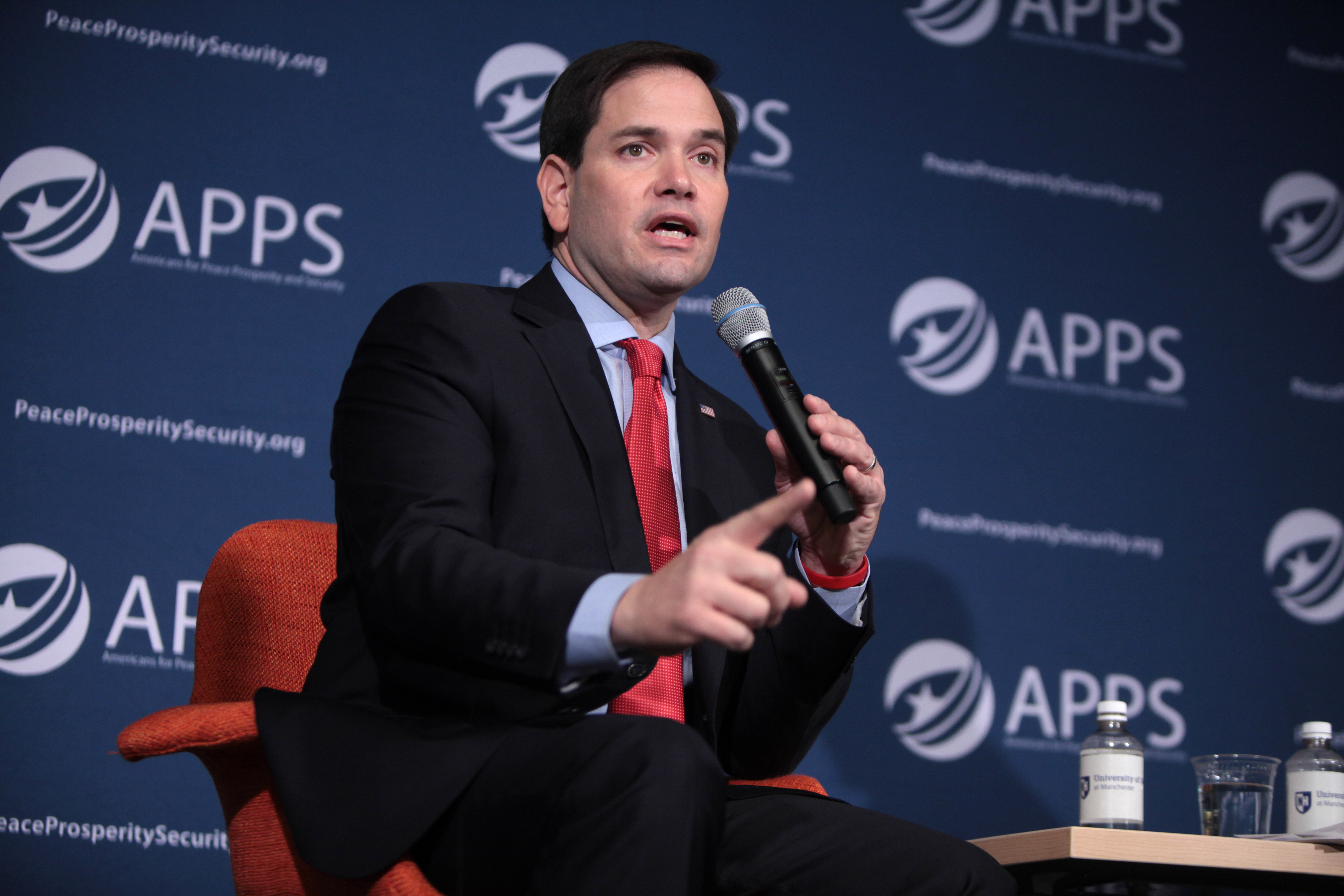 Marco Rubio speaking at an event in Manchester, New Hampshire.